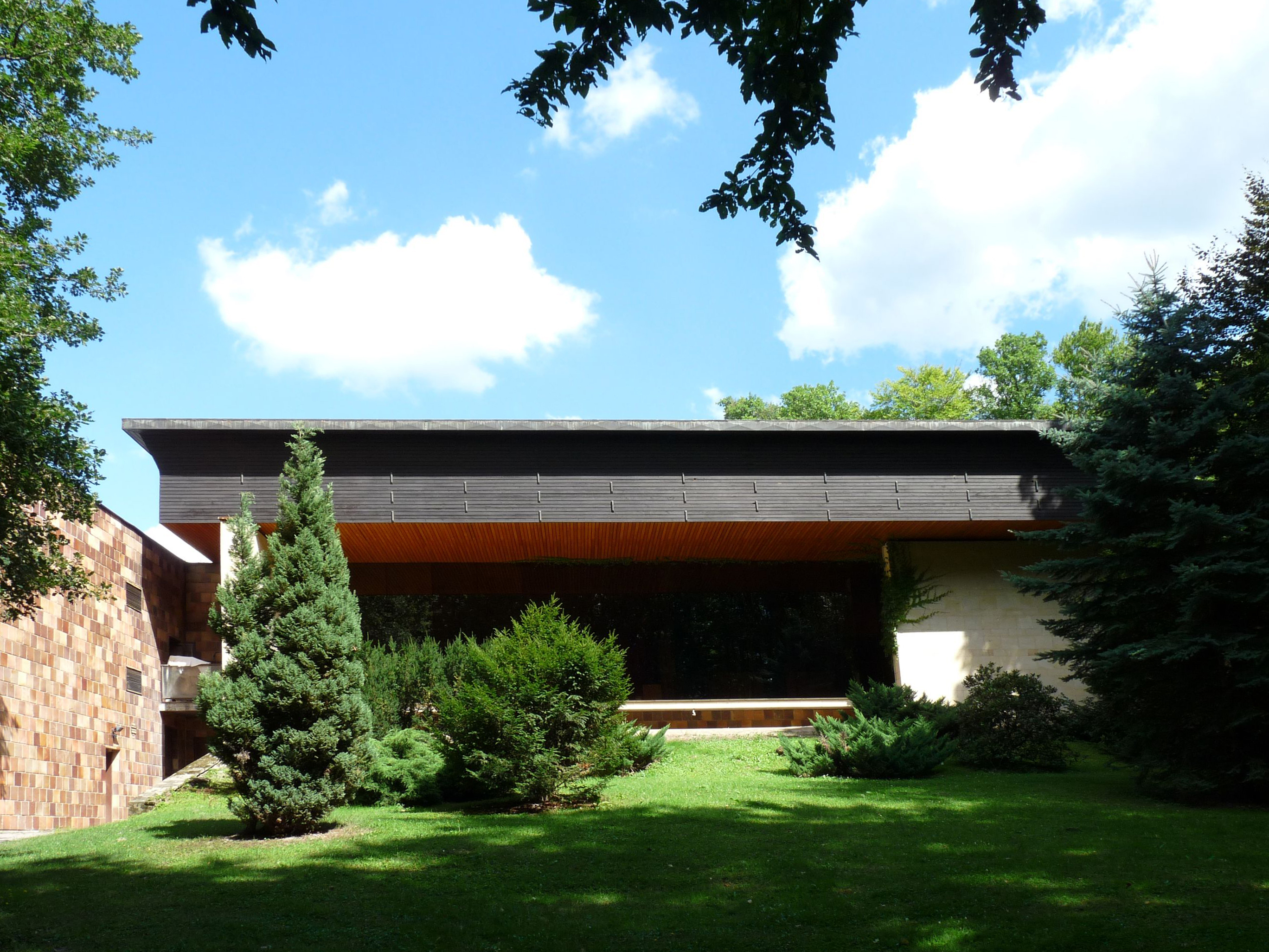 Woodland cemetery in the town of Zlín, Zlín Region, Czech Republic.